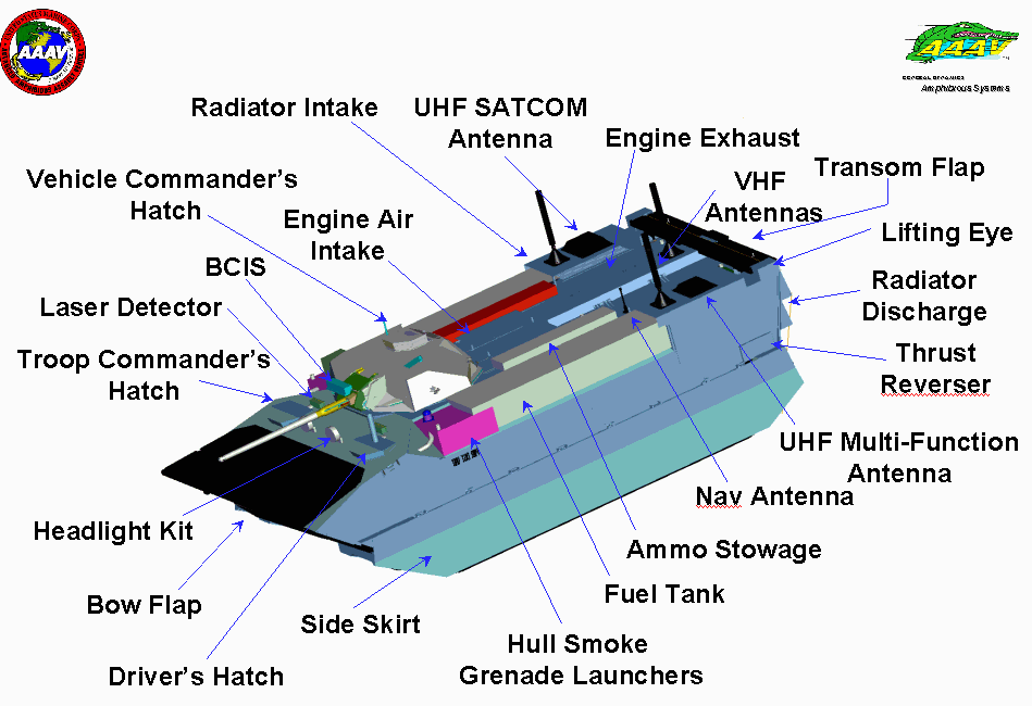 Schematic of Personnel variant of the Expeditionary Fighting Vehicle